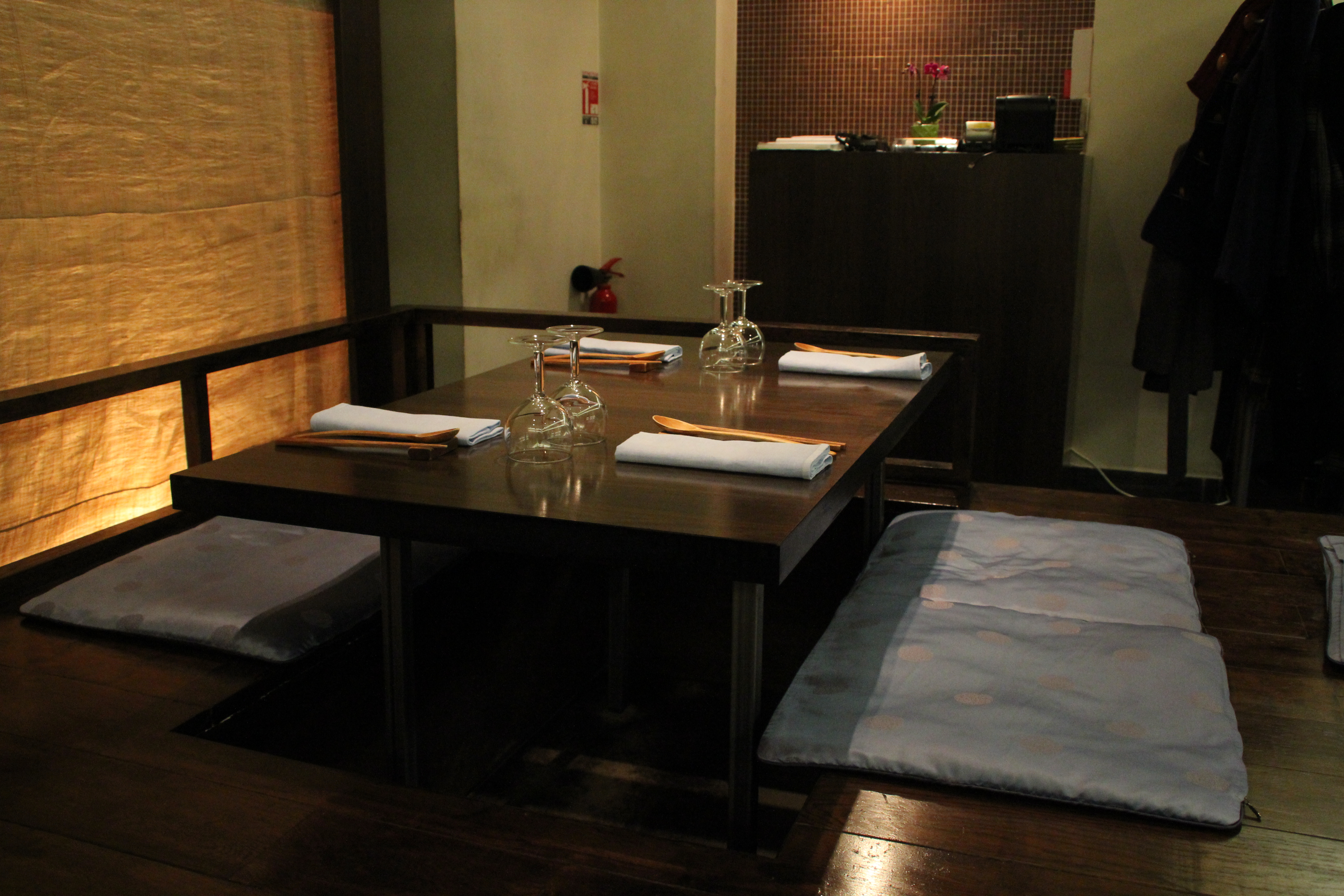 Korean restaurant Marou of Chevilly-Larue, France.